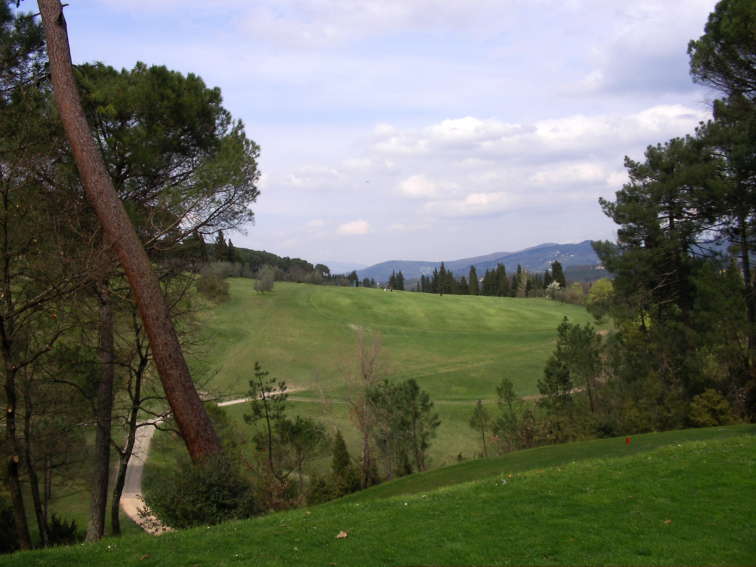 5th Tee, looking out to the fairway, Circolo del Golf dell'Ugolino